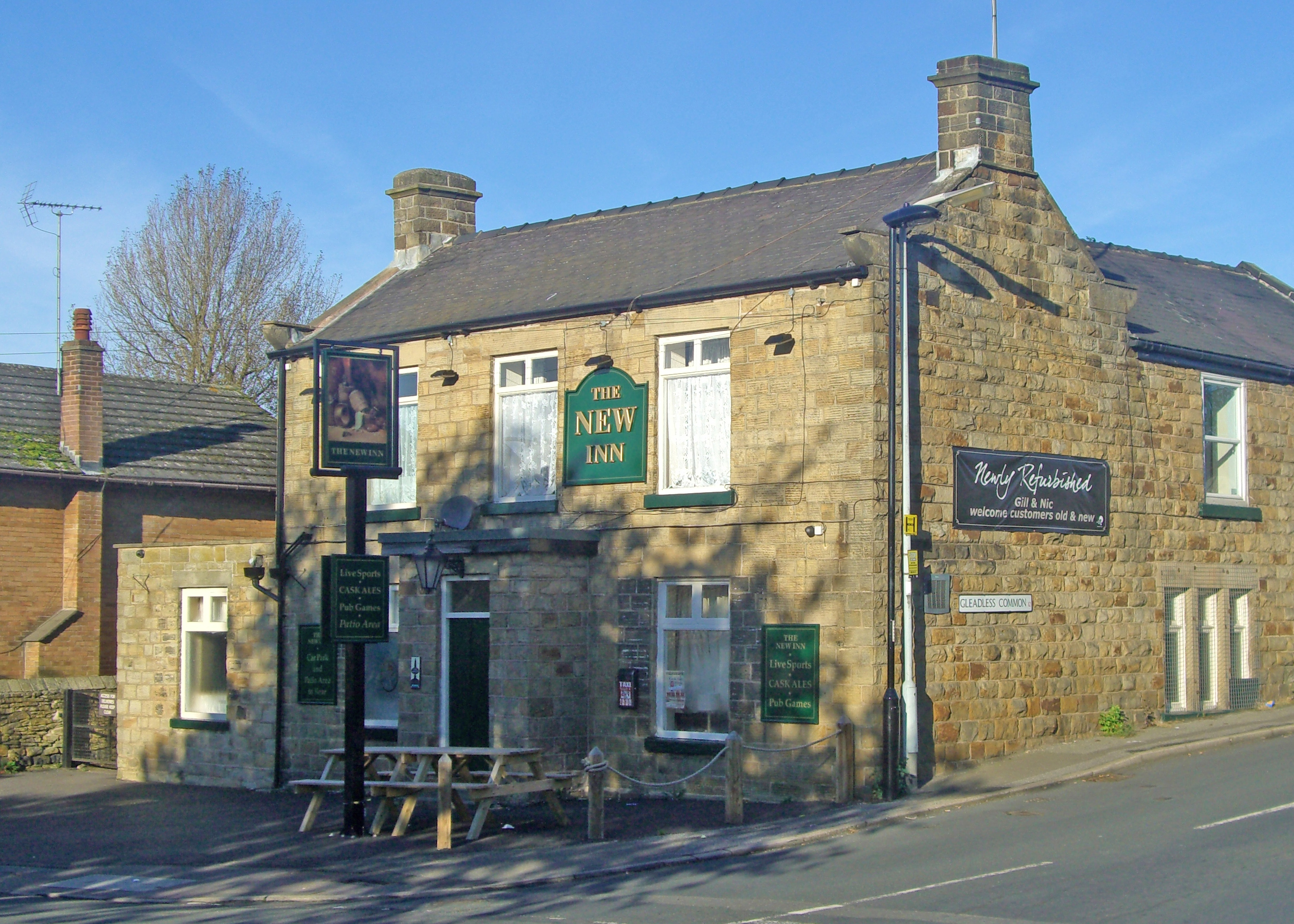 The New Inn public house at Gleadless, Sheffield, UK.